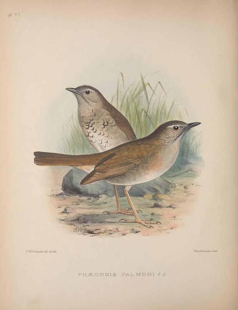 Myadestes palmeri from The Birds of the Sandwich Islands